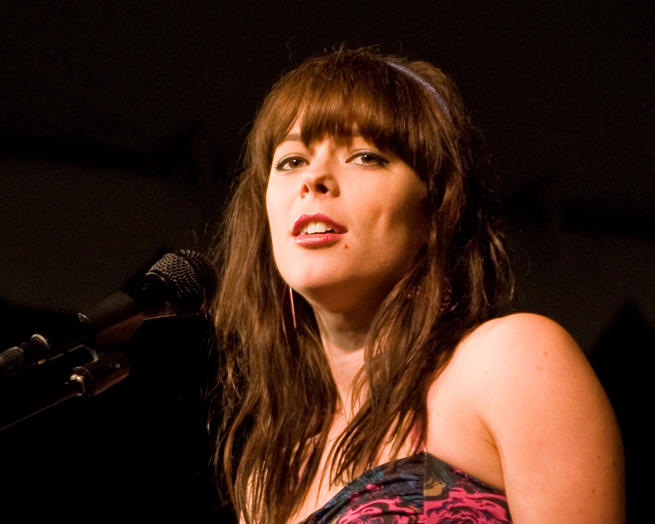 Lenka @ Bumbershoot 2009, Seattle